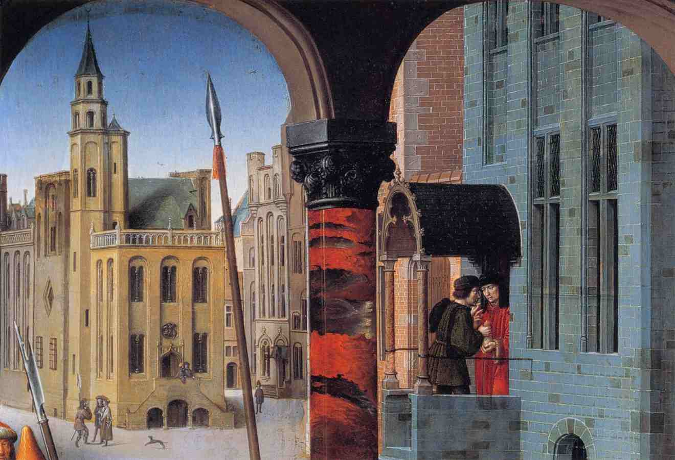 The Judgment of Cambyses (Detail) Oil on wood, 202 x 349,5 cm Groeninge Museum, Bruges